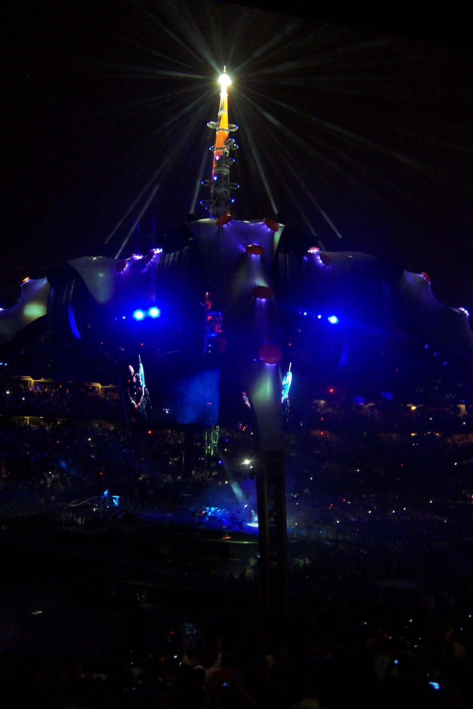 U2 performing "With or Without You" at Giants Stadium in New Jersey during their U2 360° Tour